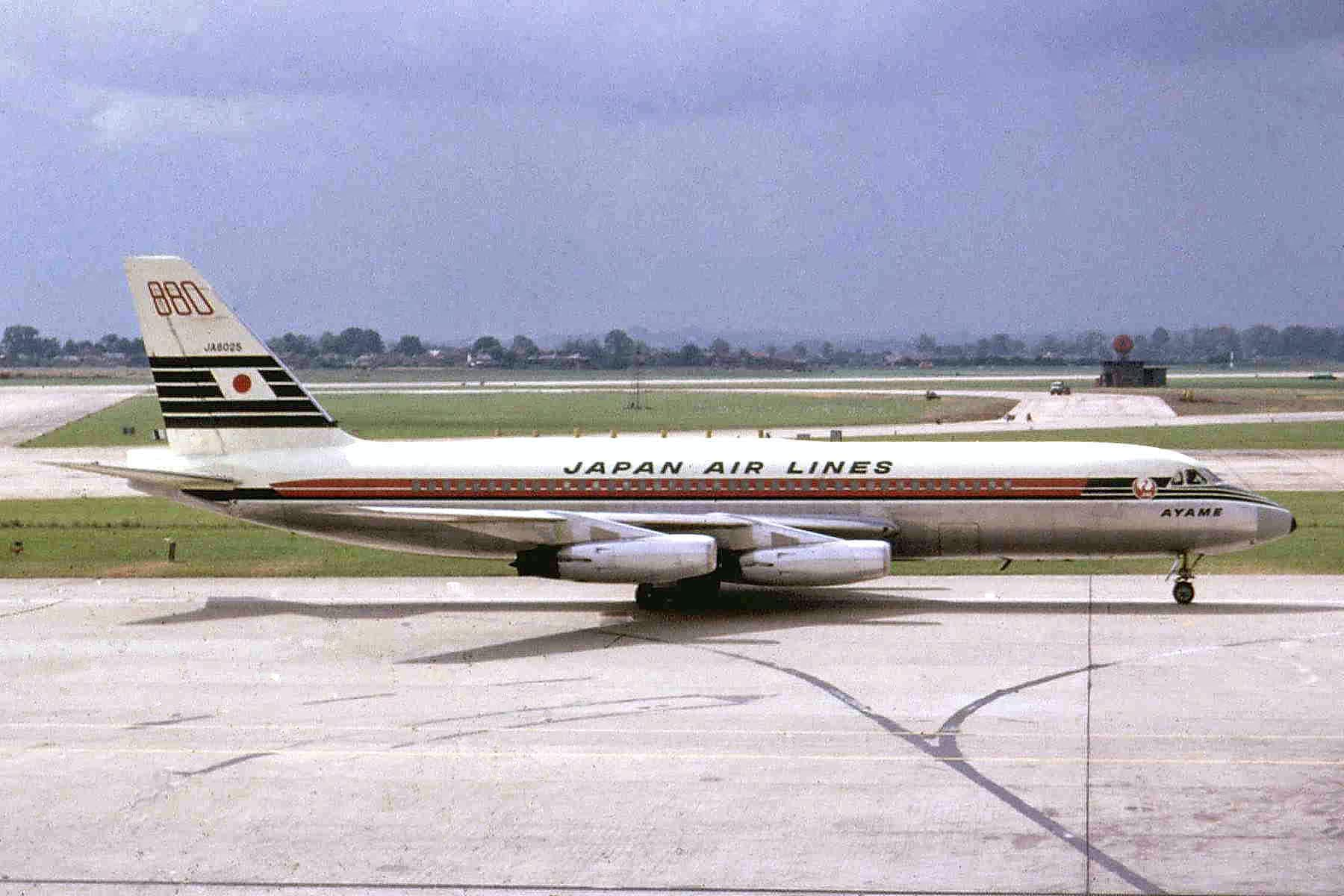 This was taken from in front of the old British Eagle hangars at London-Heathrow (LHR), looking southeast